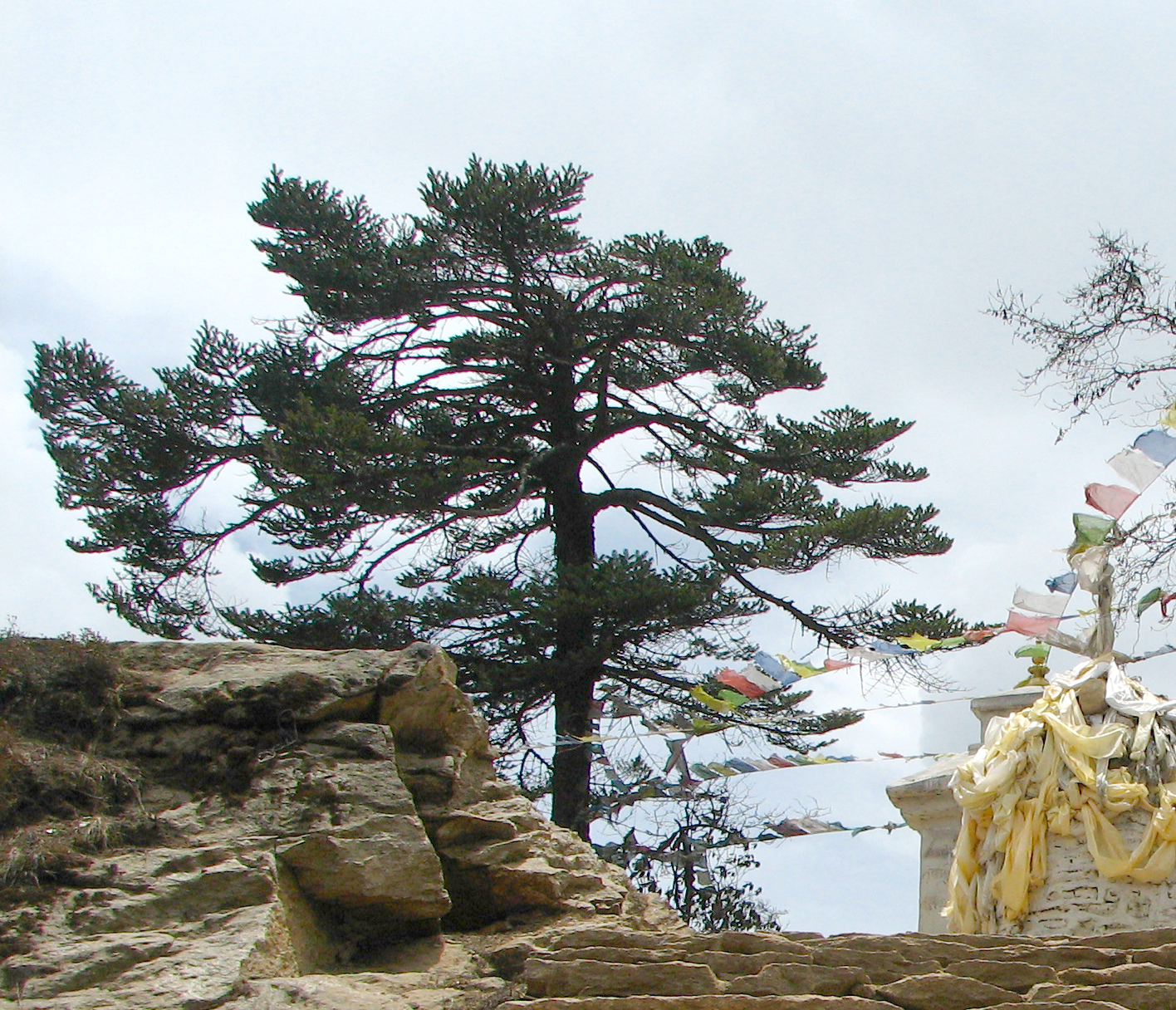 Abies spectabilis, Namche Bazaar, Nepal 27°49'27"N 86°43'00"E, 3775m altitude.